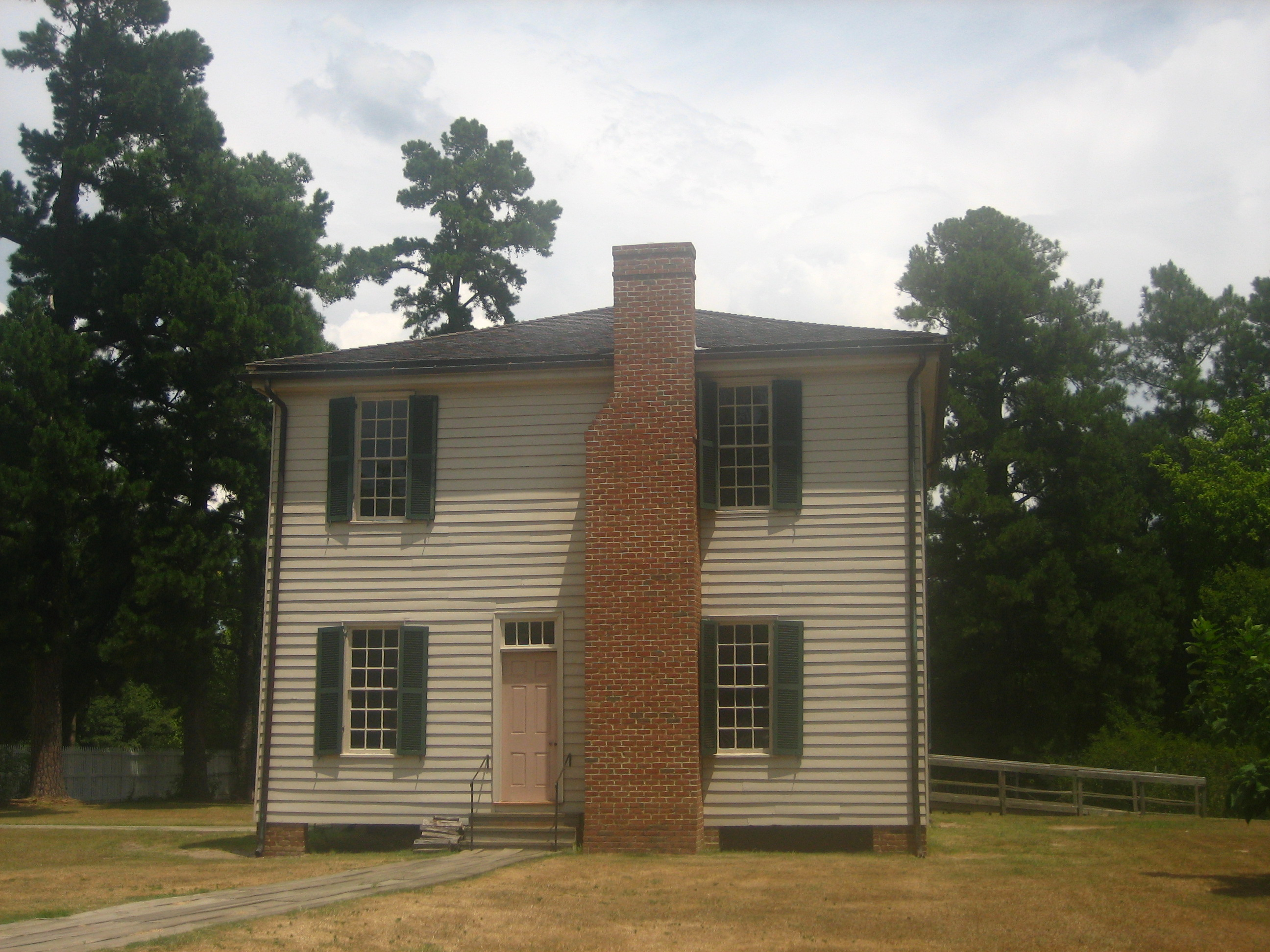 I took photo on Aug. 7, 2008.Billy Hathorn (talk) 21:54, 10 September 2008 (UTC)